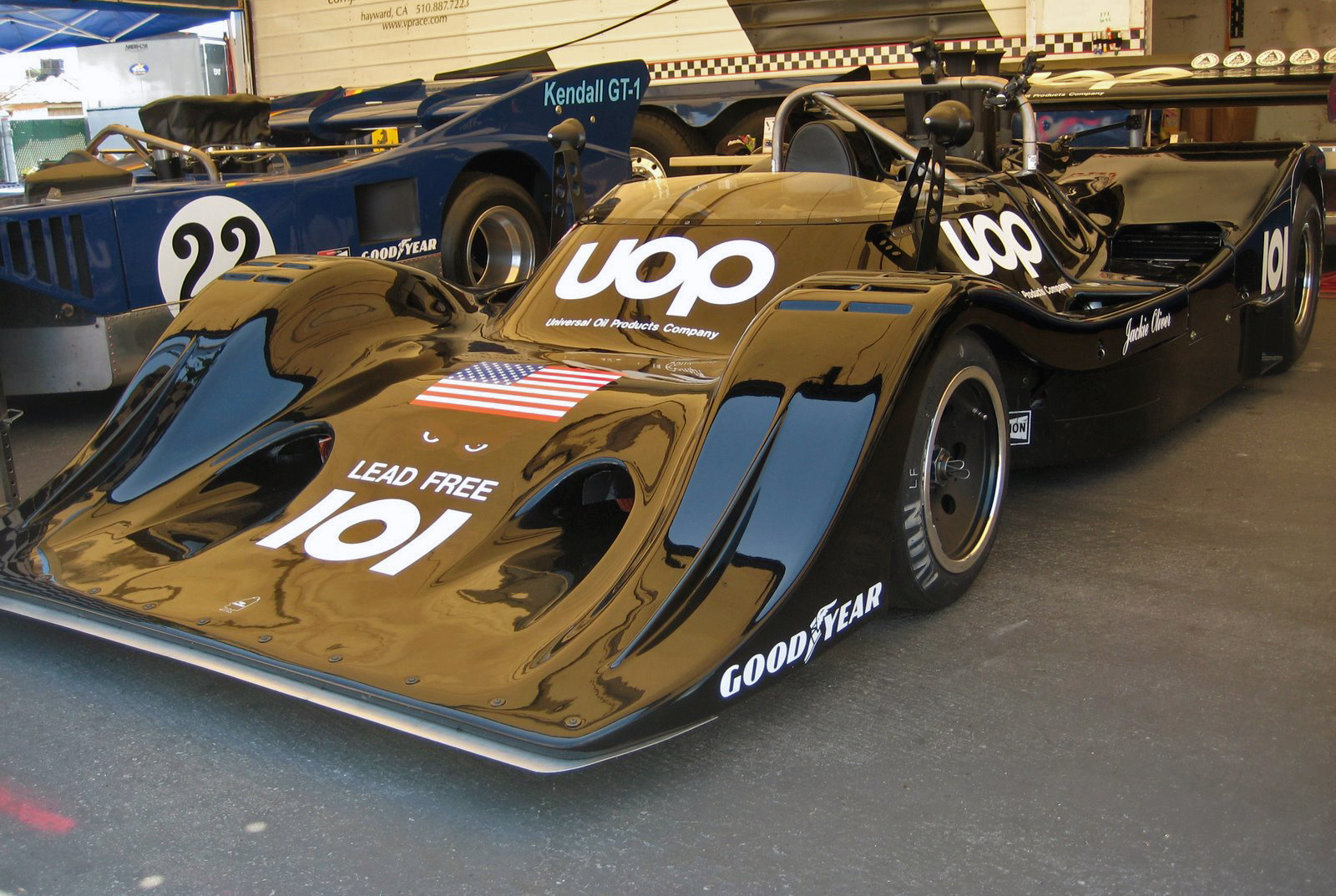 1974 UOP Shadow DN4 can-am racer at the Laguna Seca Historics, 2009.